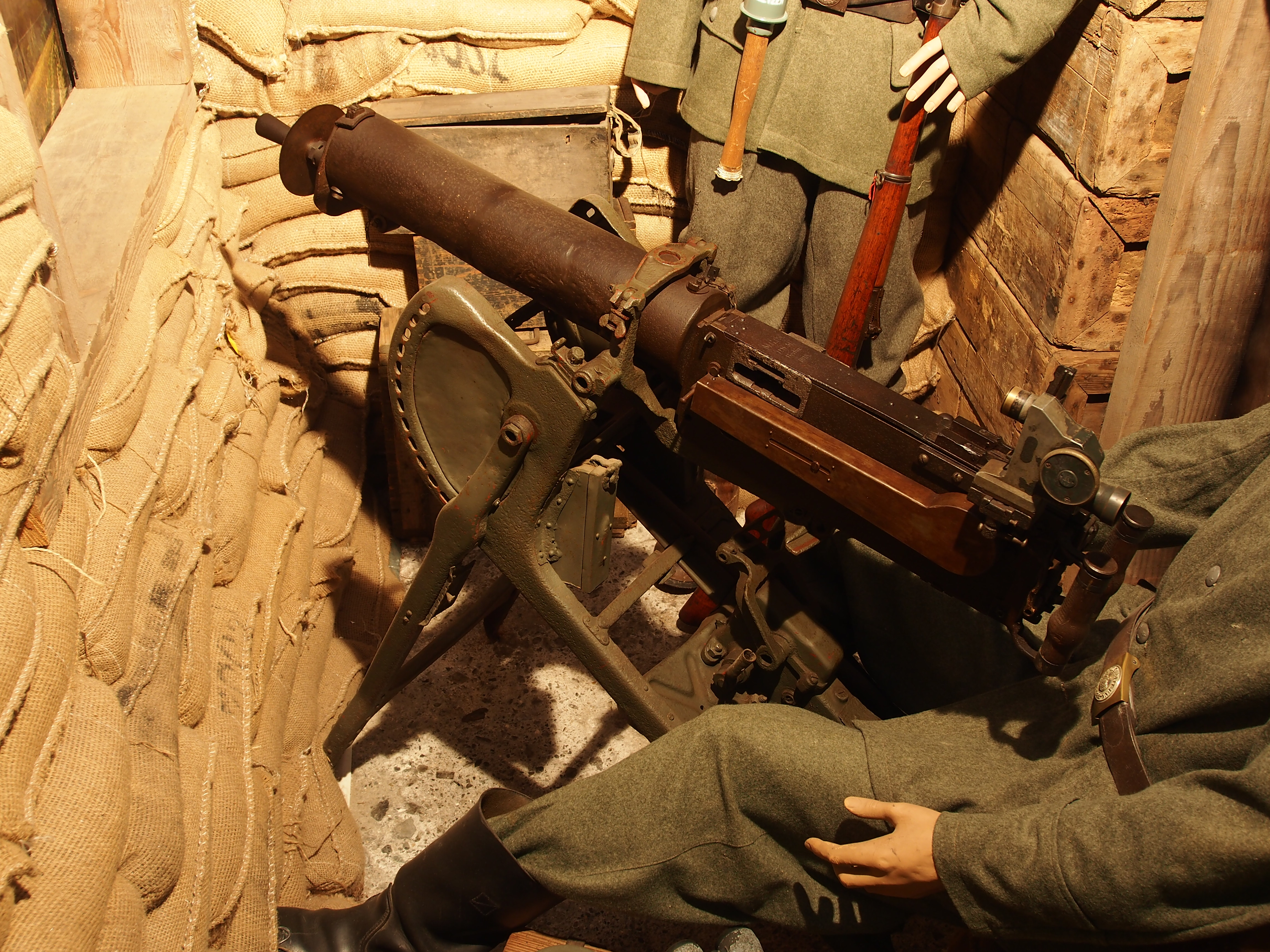 Photographed in the Musée Somme 1916 of Albert (Somme), France.